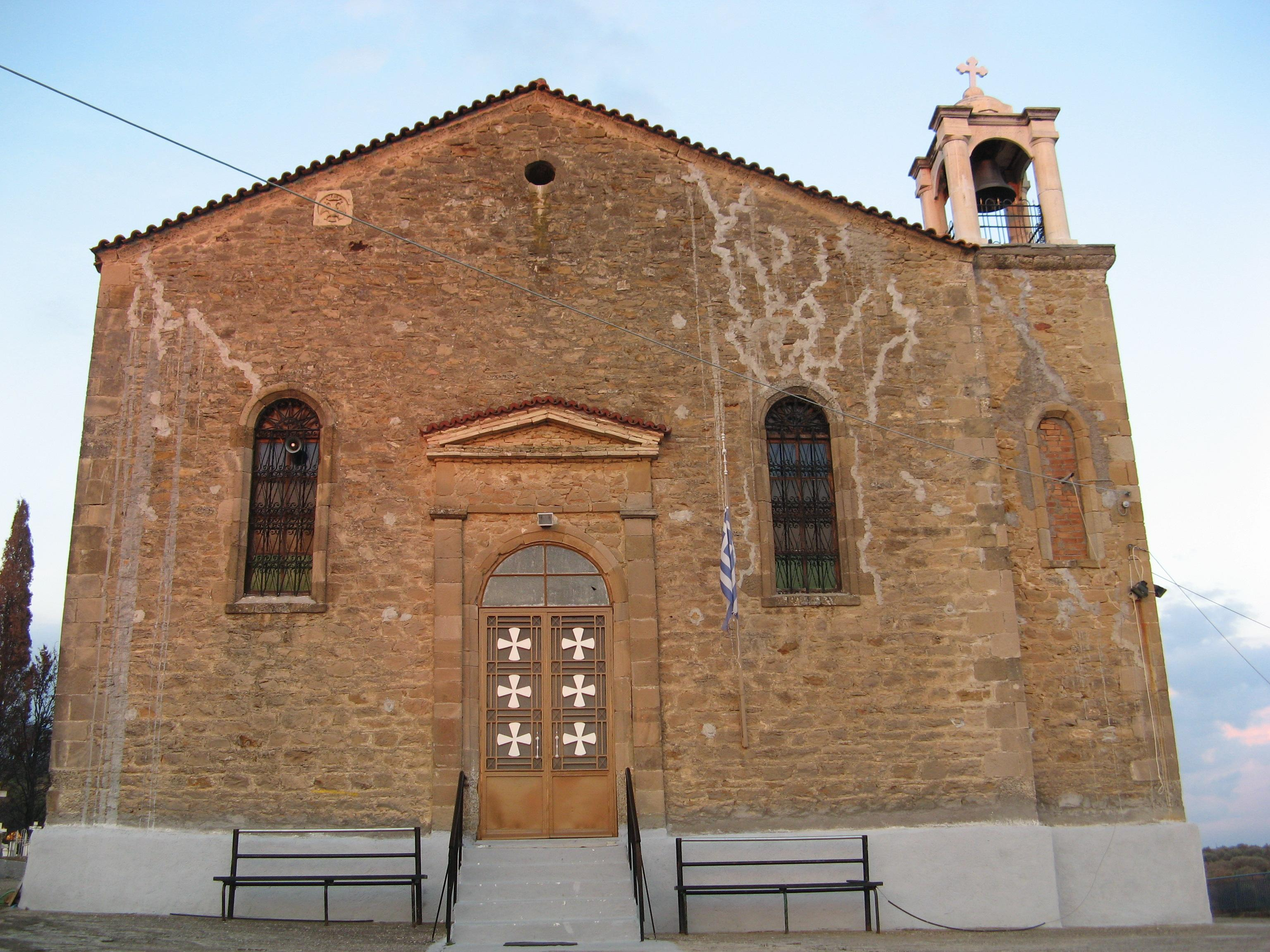 Saint Nicholas church in Koliri